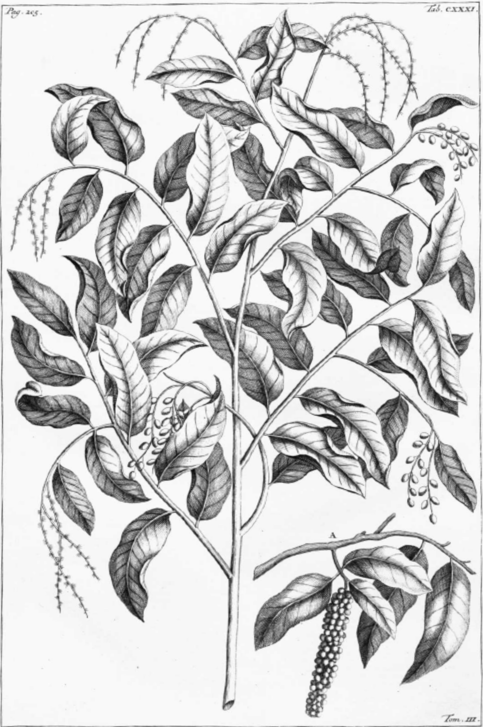 Antidesma bunius